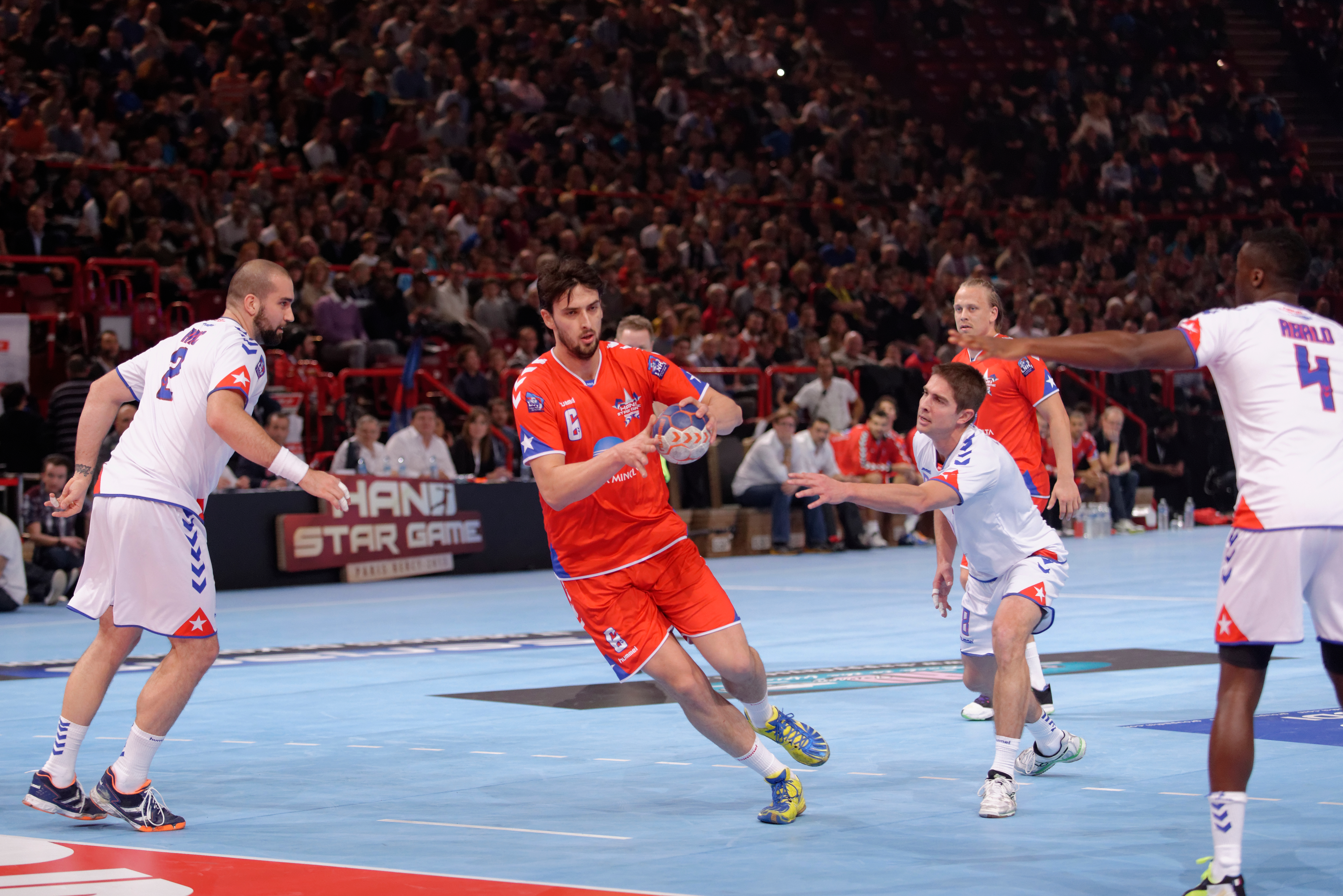 Right-back Marko Kopljar prepares to shoot while Igor Anic, Bastien Lamon and Luc Abalo defend during the 2013 Hand Star Game held at the Palais Omnisports de Paris-Bercy on 7 December 2013.